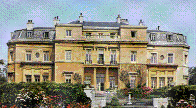 Luton Hoo. photographed by uploader circa 1975